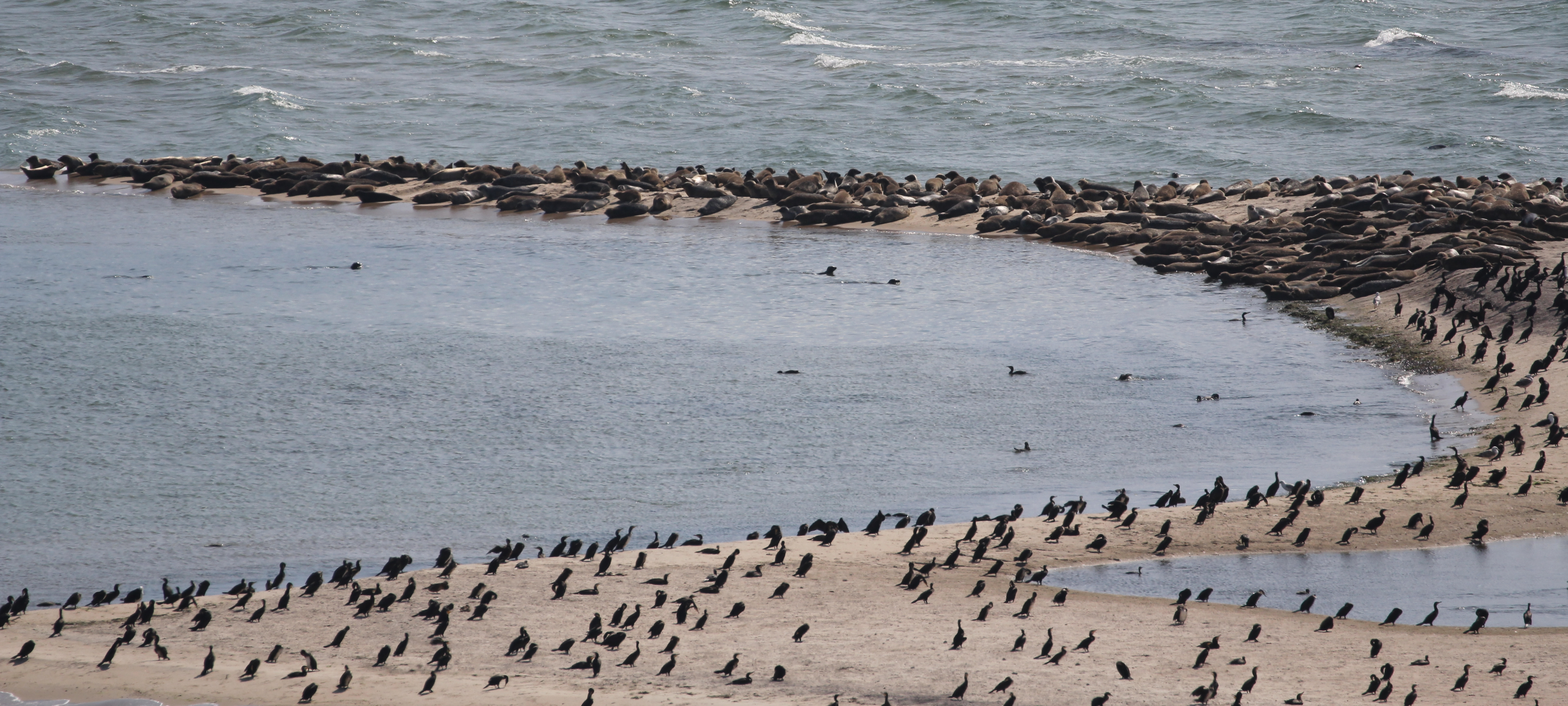 Sandy beach "Totten" on the island of Anholt with seals and cormarants on land and in the water.